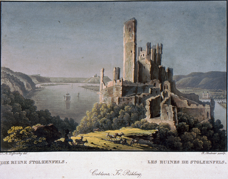 Ruine Stolzenfels